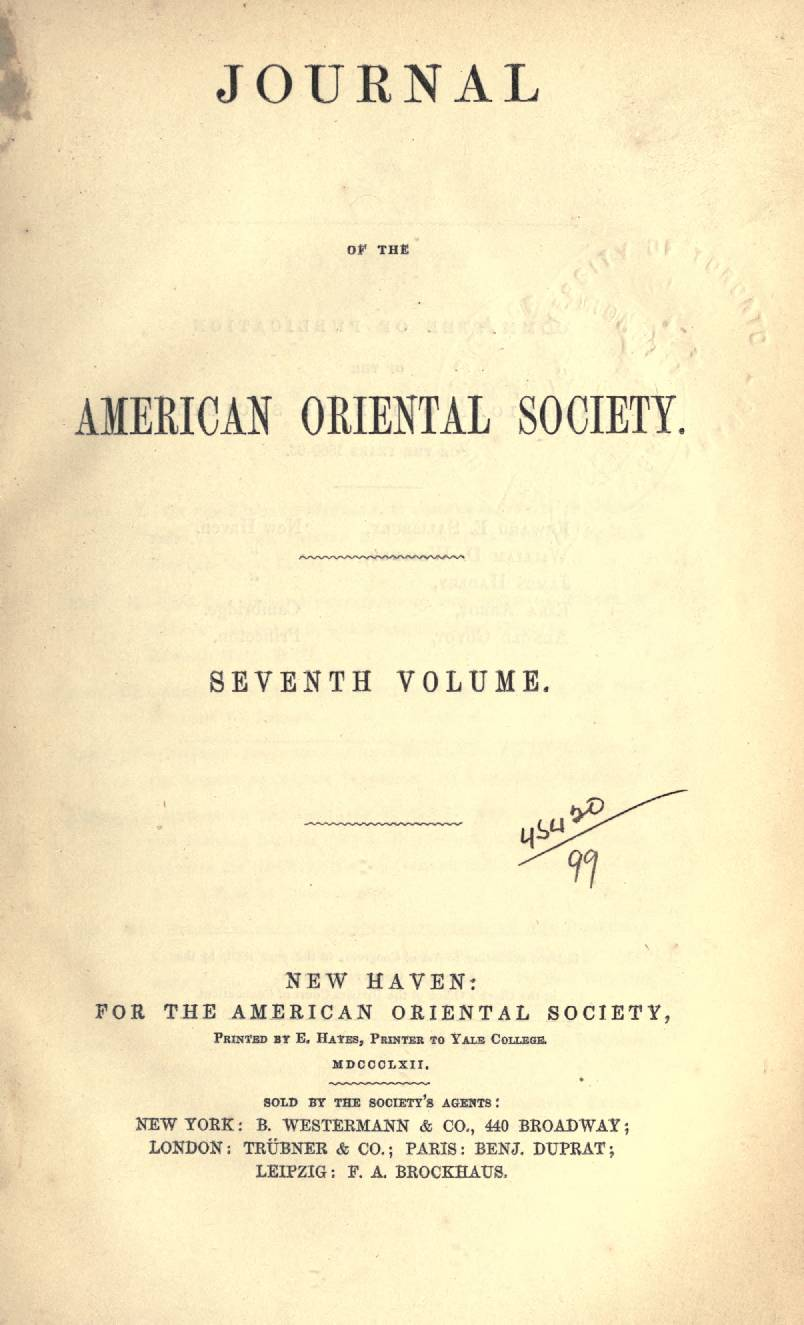 Journal of the American Oriental Society Volume 7 cover